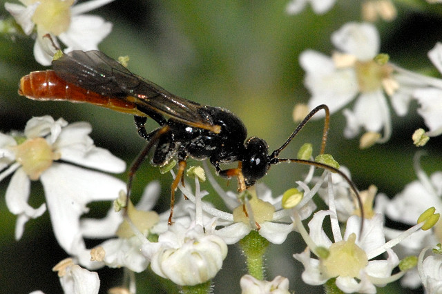 Tryphon rutilator from Commanster, Belgian High Ardennes .